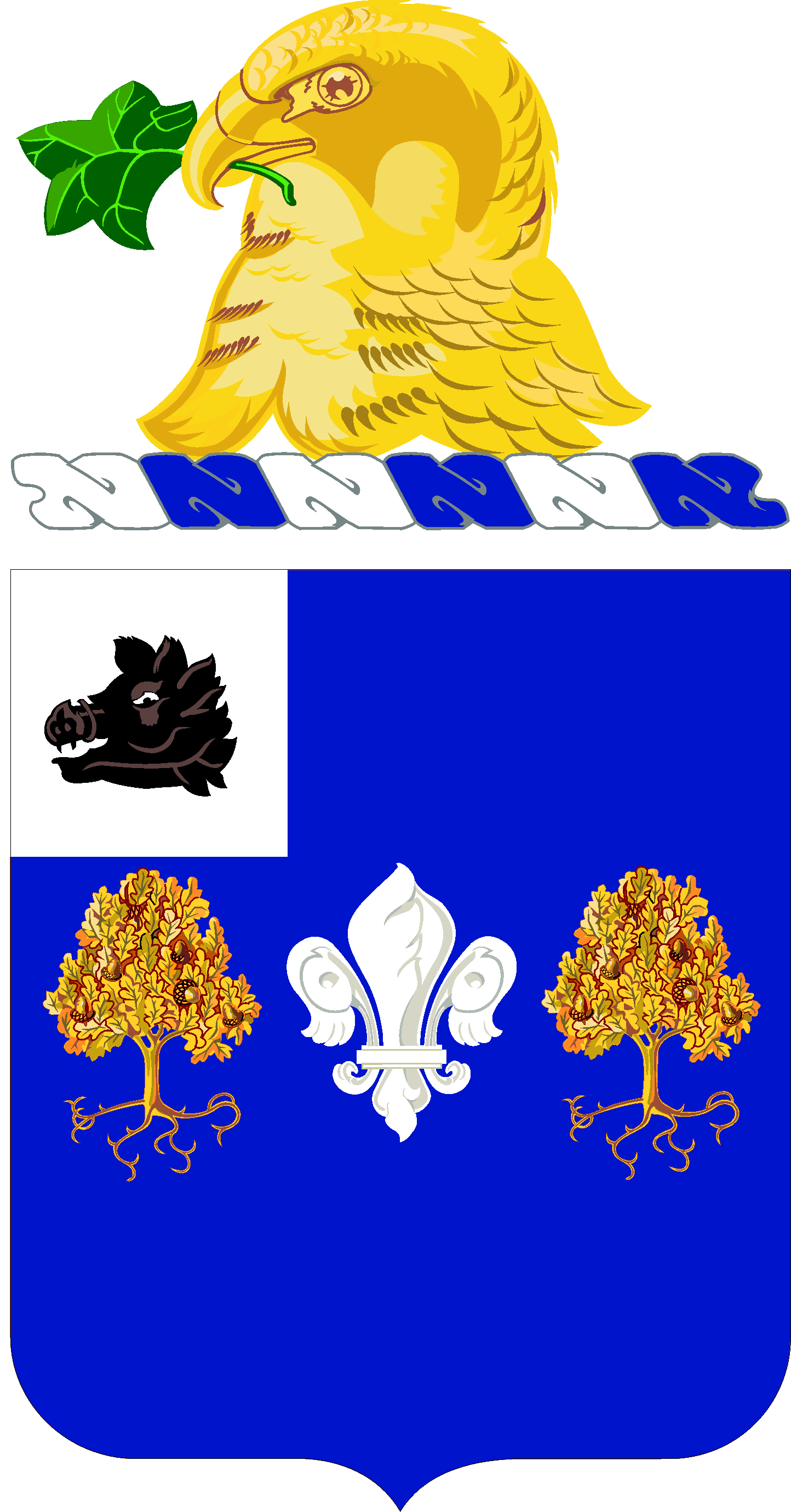 Description/Blazon Shield Azure, a fleur-de-lis Argent between two oak trees eradicated in fess Or; on a canton of the second a boar's head erased Sable. (And for informal use, pendant from the escutcheon a French Croix de Guerre with Gilt Star Proper). Crest On a wreath of the colors Argent and Azure a falcon's head erased Or, in the bill an ivy leaf Vert. Motto D'UNE VAILLANCE ADMIRABLE (With a Military Courage Worthy of Admiration). Symbolism Shield The shield is blue for Infantry. The fleur-de-lis from the arms of Soissons and the two trees representing the Grove of Cresnes, the capture of which was the regiment's first success, are used to show service in the Aisne-Marne campaign. The boar's head on the canton is from the crest of the 30th Infantry and indicates that this regiment was organized with personnel from the 30th. Crest The falcon's head for Montfaucon in the Meuse-Argonne, holding in his bill an ivy leaf from the shoulder sleeve insignia of the 4th Division, to which the 39th was assigned during World War I. The motto is a quotation from the French citation awarding the Croix de Guerre with Gilt Star to the regiment for service in World War I. Background The coat of arms was approved on 25 April 1925.